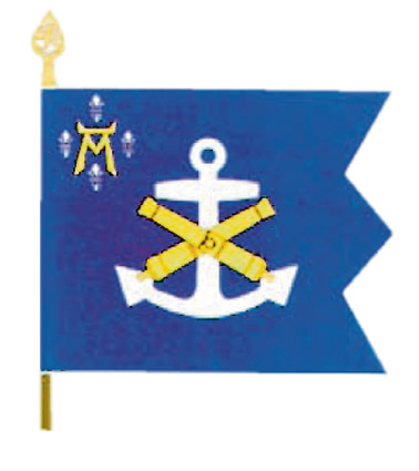 The Colour of Archipelago Sea Naval Command, Finnish Navy. The main emblem is the same as with the Gulf of Finland Naval Command: anchor overlaid by cannons, symbolizing fleet and coastal artillery. The minor emblem features the coat-of-arms of Turku, the headquarters city of the unit.